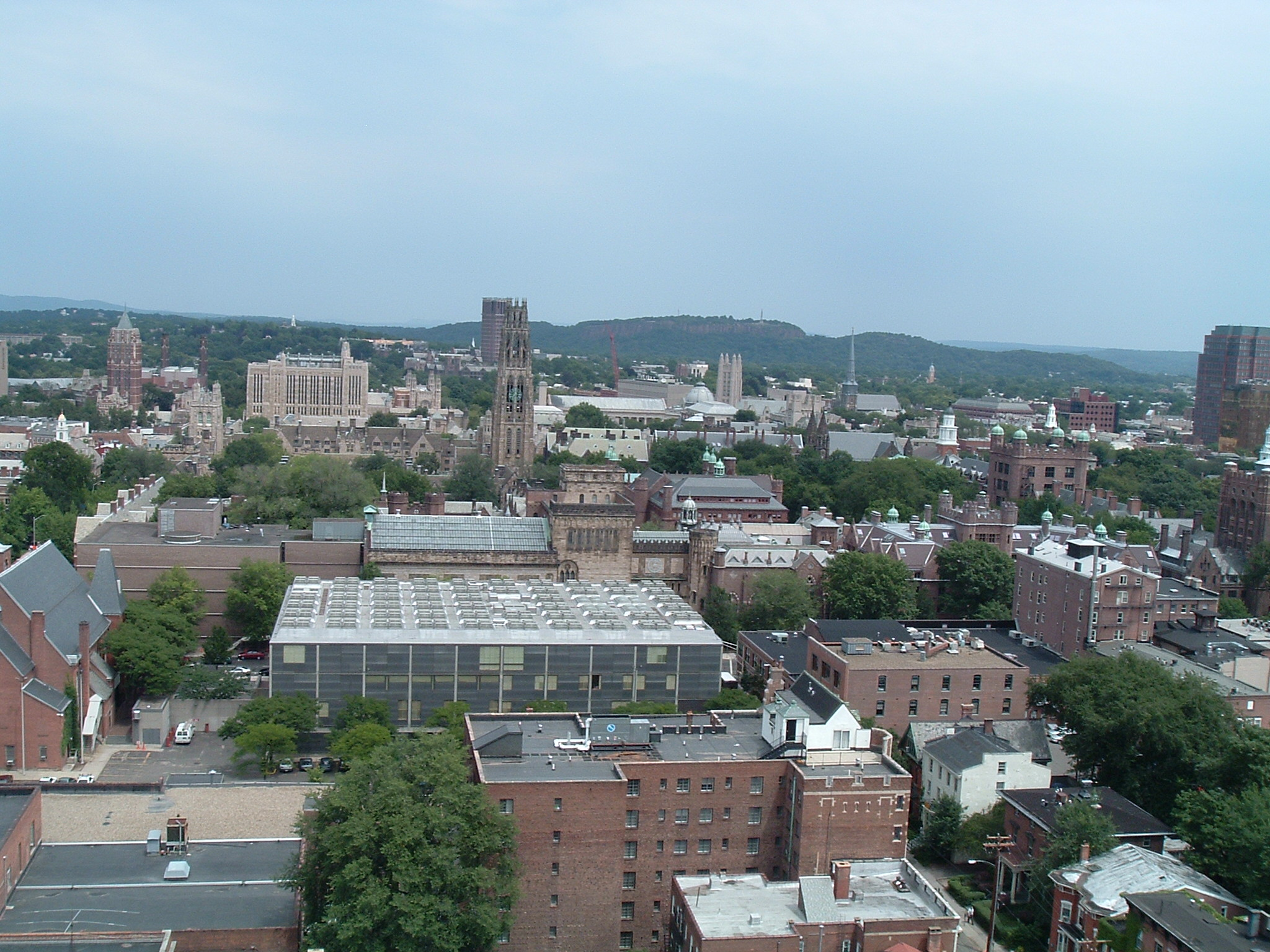 Photo taken from Crown Towers in the block bounded by Crown St. to the north, York St. to the west, George St. to the south, and High St. to the east. The Yale Museum of British Art is and the Yale Rep building are in the foreground, with the Yale old campus and central campus areas behind and to the right, after which the image extends north to include the monument on the top of East Rock